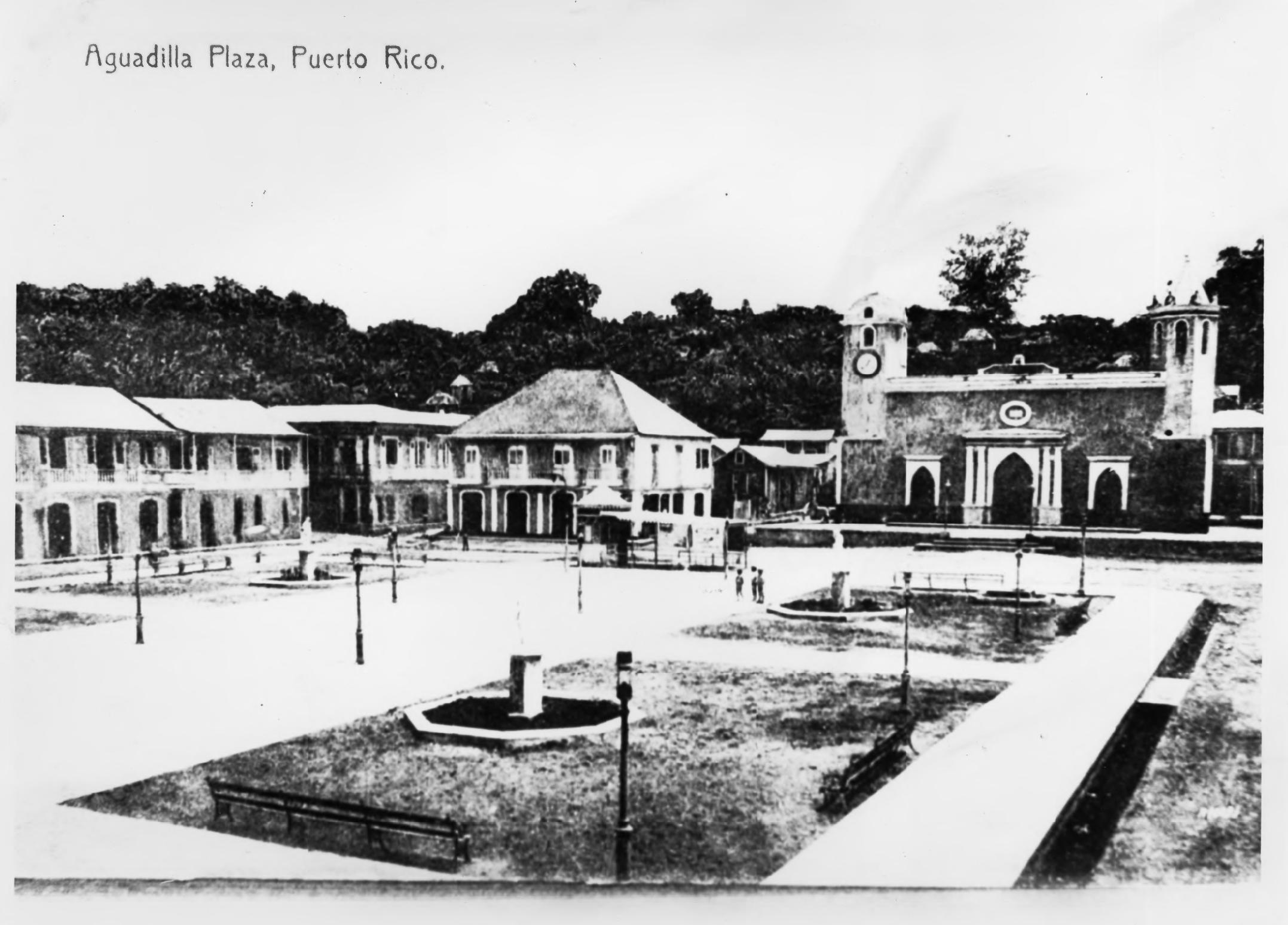 Church San Carlos Borromeo of Aguadilla